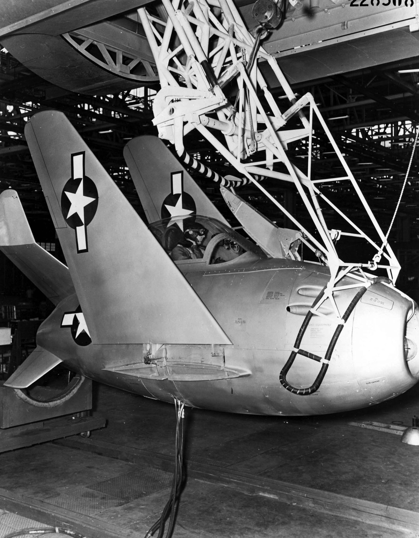 Mockup of McDonnell XP-85 (later XF-85) Goblin parasite fighter in hangar test of recovery trapeze, with wings folded in stowed configuration